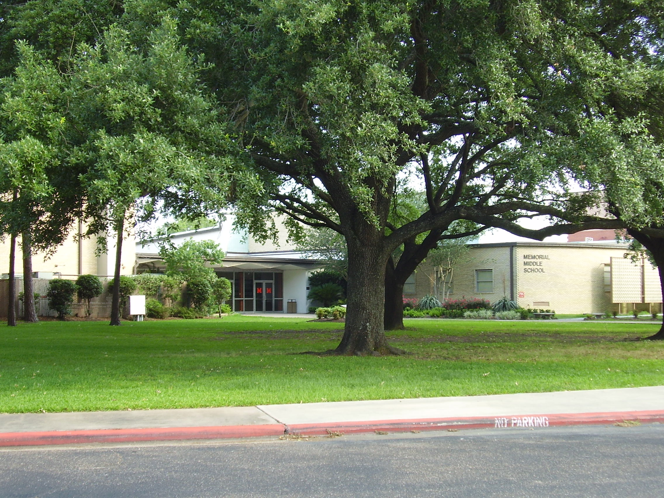 Memorial Middle School in Houston